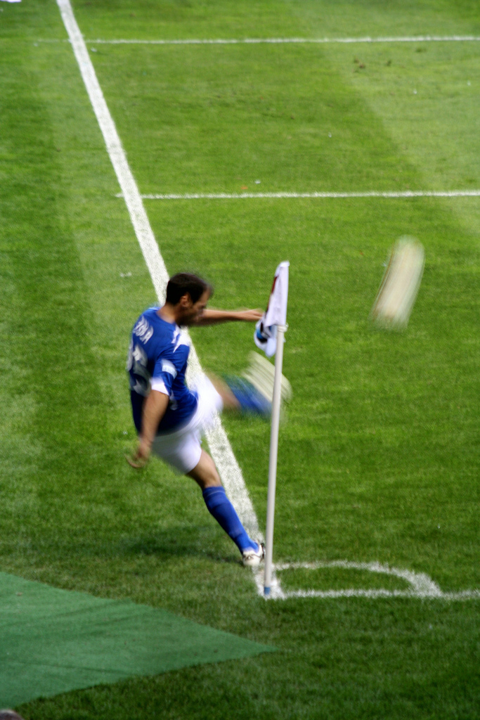 Gianfranco Zola taking a corner for Rest of the World. Taken at the Soccer Aid match on Saturday 27th May 2006 at the Theatre of Dreams, Old Trafford, Manchester, home of Manchester United Football Club. It was a charity match between England v Rest of the World. Each team was made up with legends and celebrities.